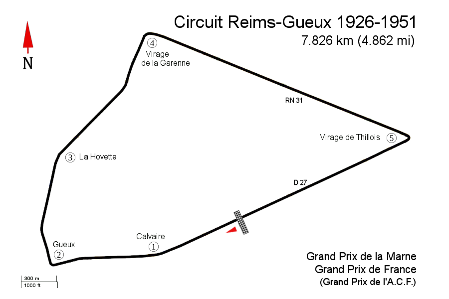 Circuit Reims-Gueux 1926